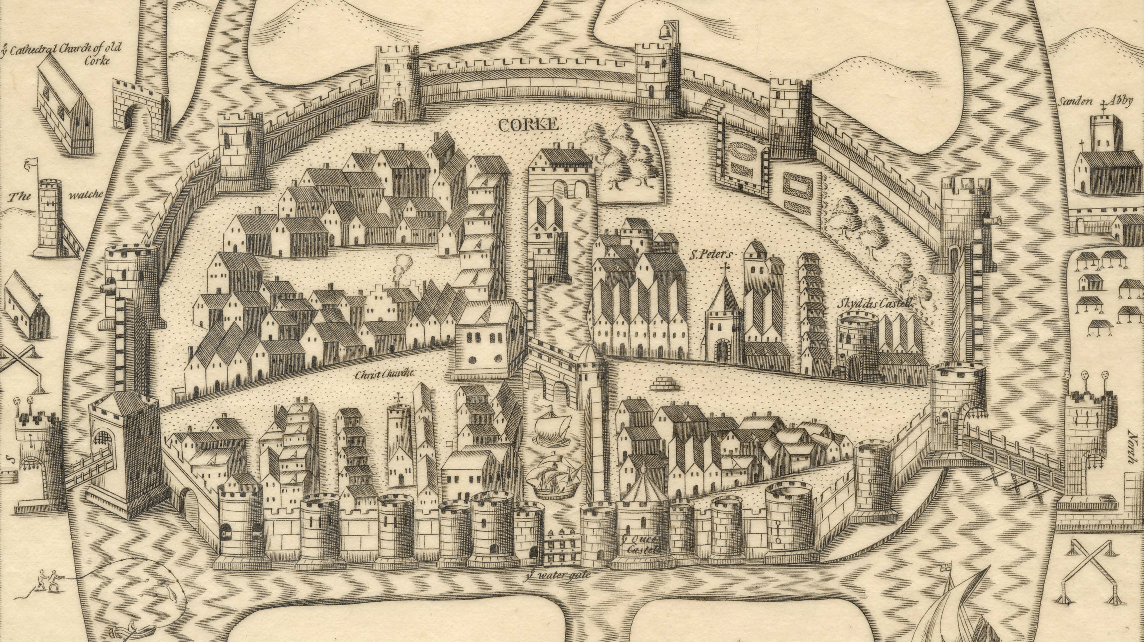 Late 16th (early 17th) century map of Cork. Extracted and replicated from Stafford's Pacata Hibernia. Page 137.